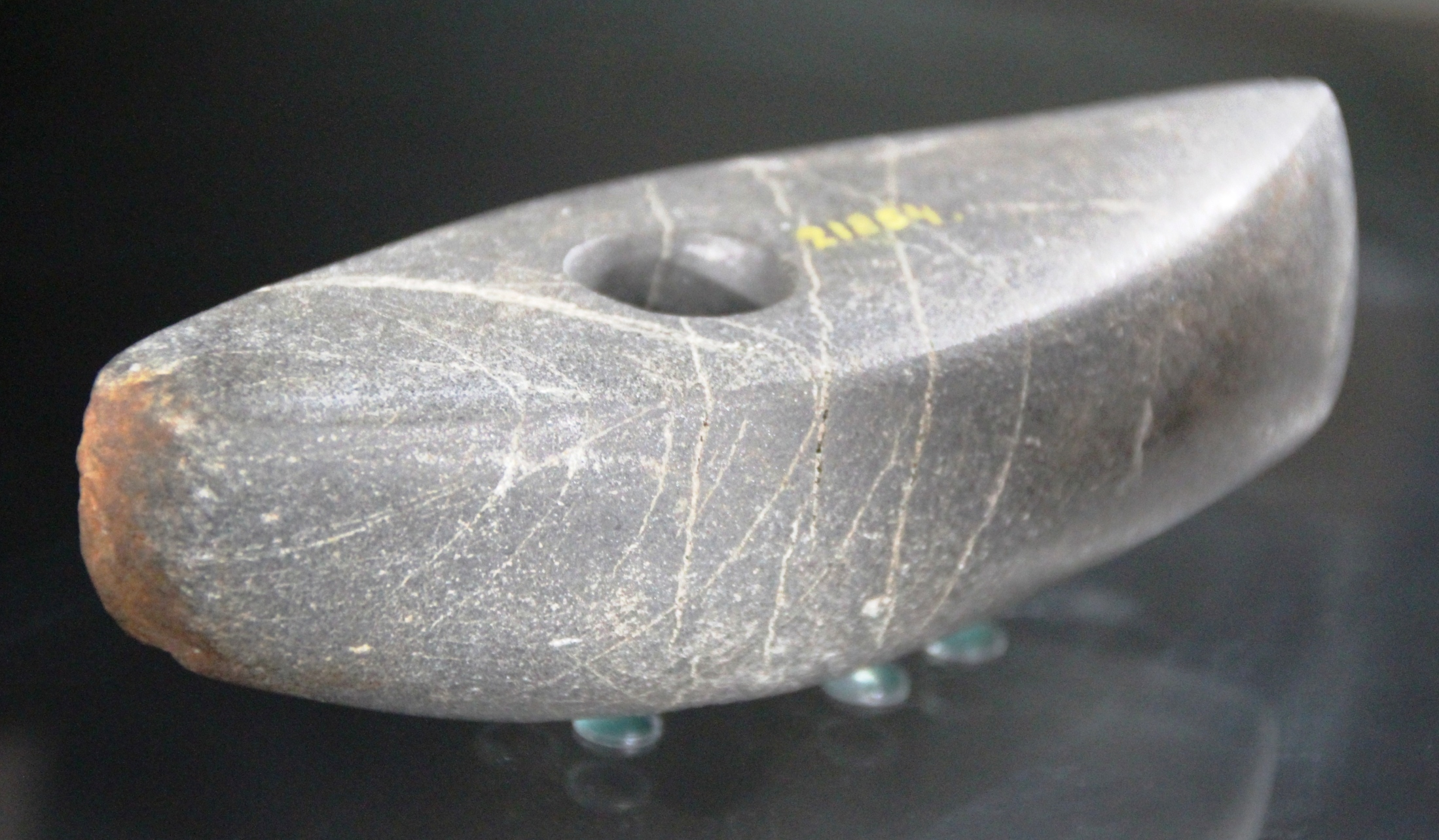 Image from the Nordberg Museum of western Lista (Farsund municipality), south Norway. The image displays a bronze-age polished "Boat Axe".